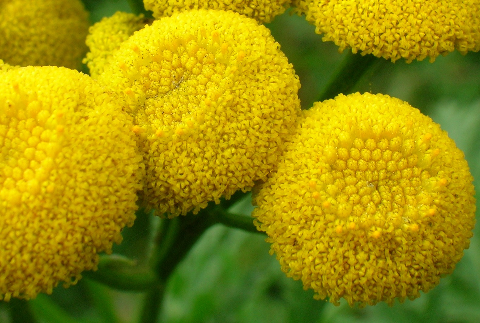 Close up of Tansy flower.